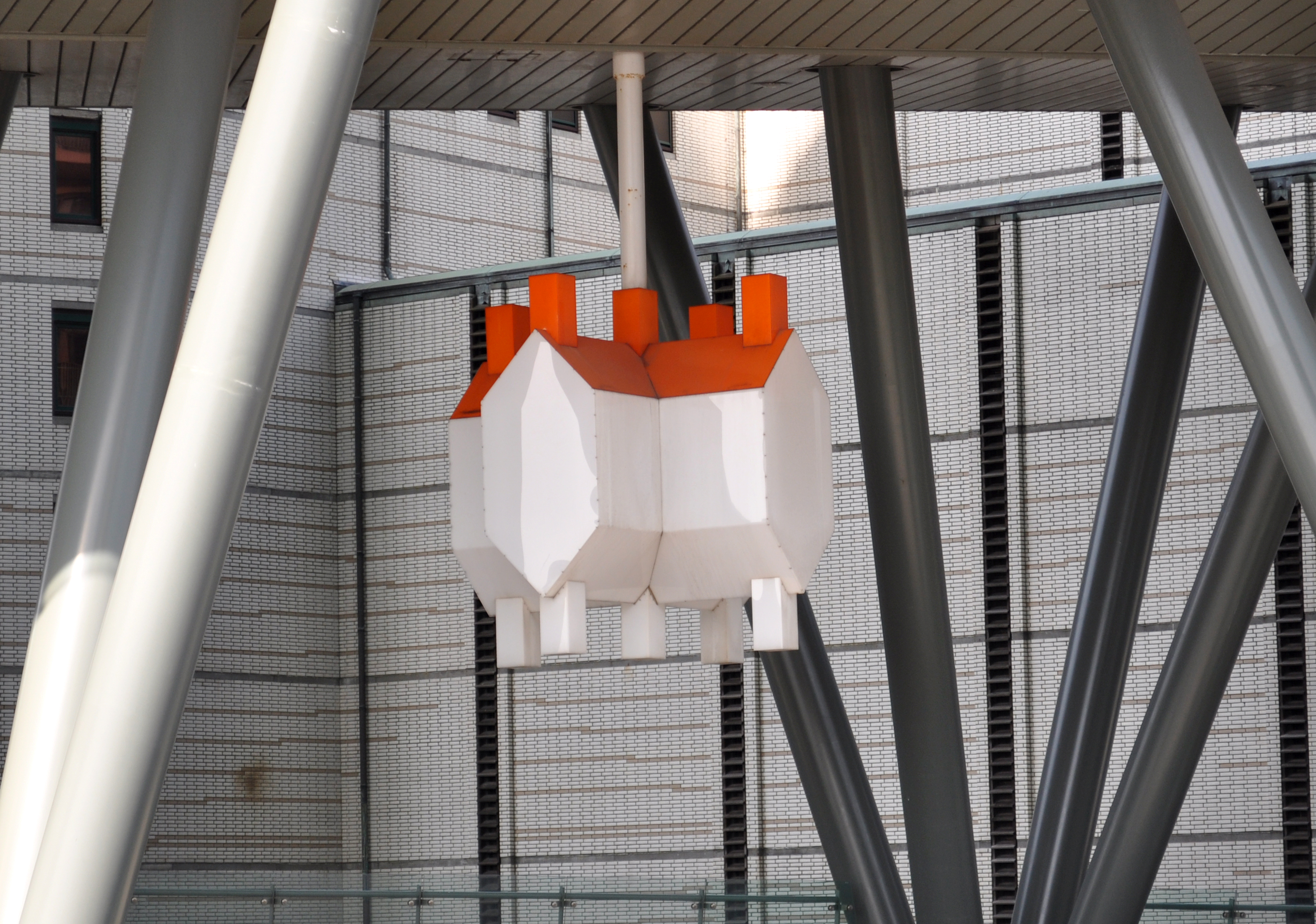 Sculpture (one of two) hanging below the appartmentbuilding "La Fenêtre" at the Prins Willem Alexanderweg in The Hague (picture was taken from the Prins Bernhardviaduct). The sculptures were made by Han Schuil in 2005.